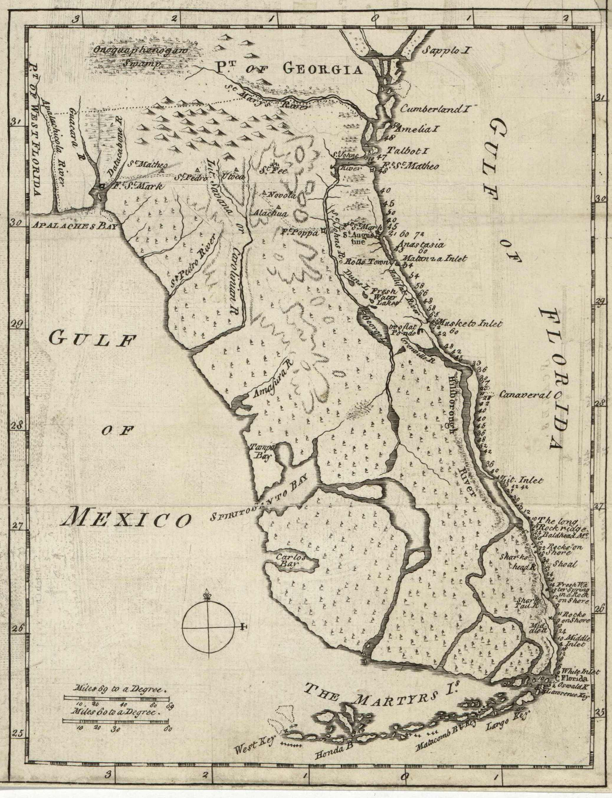 Map of Florida of ca. 1764 . Credits (US Library of Congress, released to public domain)